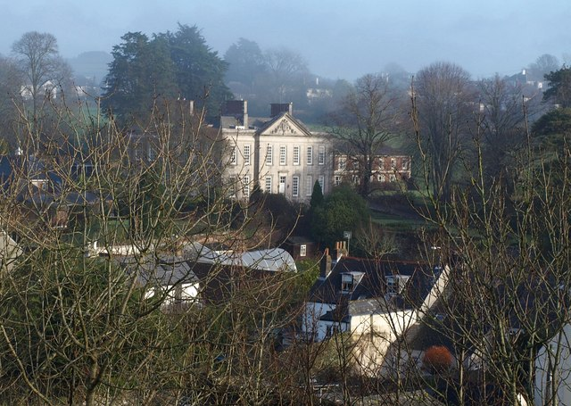 Plympton House from the castle The early C18 William and Mary mansion with its impressive 7-bay front is now St Peter's Convent . Seen across the roofs of Barbican Road and George Lane.